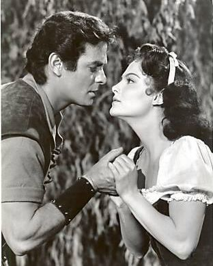 Promotion photo from Snow White and the Three Stooges featuring Snow White (Carol Heiss) and Prince Charming (Edson Stroll)